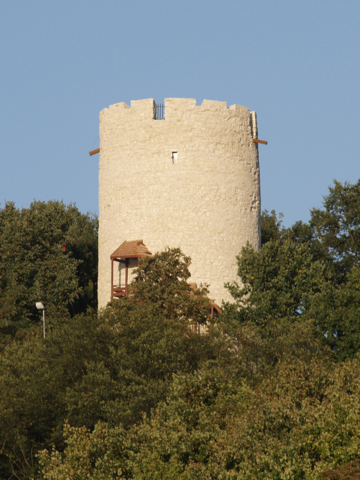 Upper castle in Kazimierz Dolny